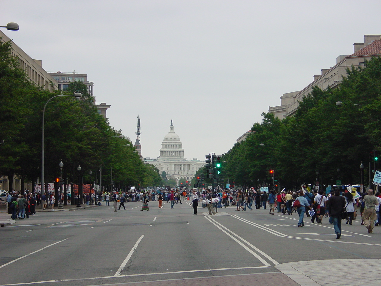 Protesters march down Pennsylvania Avenue